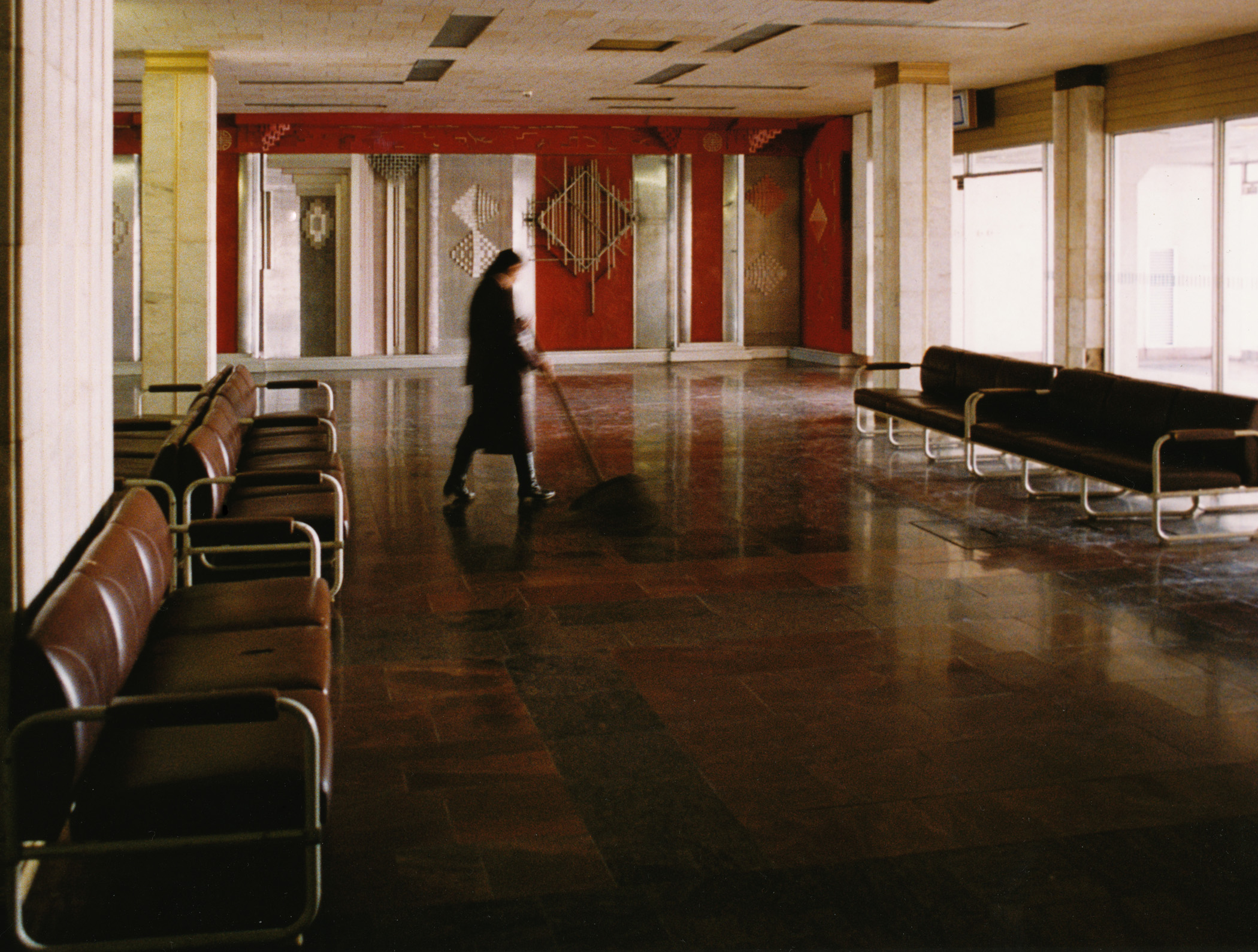 A worker sweeps the marble floors of the empty airport terminal in Ulan Bator (Улаанбаатар), Mongolia in 1992. This photo was made in the very lean days after the fall of the Soviet Union. The hand-lettered flight schedule board listed four arrivals and four departures each week, half of which to or from Moscow. It's not like this now. According to Wikipedia, the airport was Buyant Ukhaa Airport until it was renamed to Chinggis Khaan (Genghis Khan) International Airport to celebrate the 800th anniversary of the establishment of a Mongolian State on December 21, 2005. Airport codes: (IATA: ULN, ICAO: ZMUB)